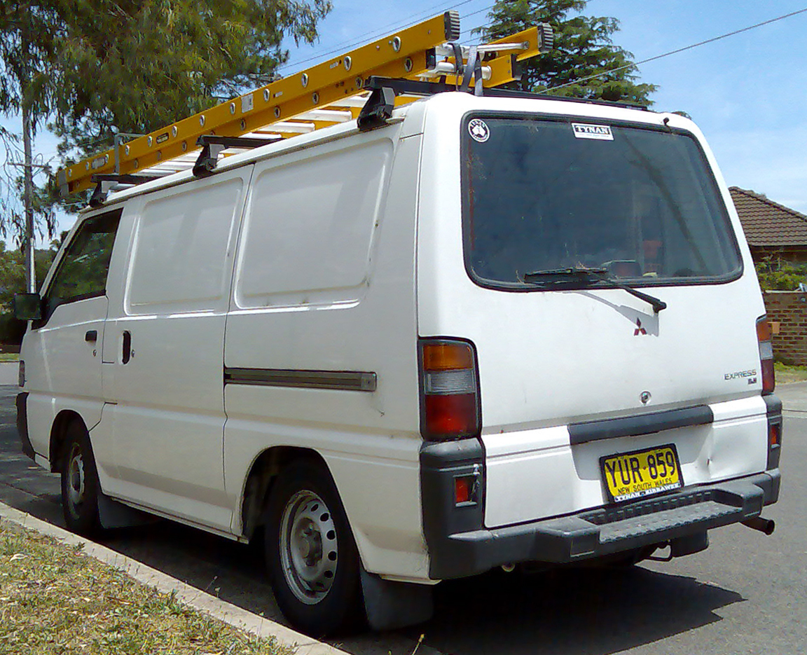 2003 Mitsubishi Express (SJ) van. Photographed in Gymea, New South Wales, Australia.